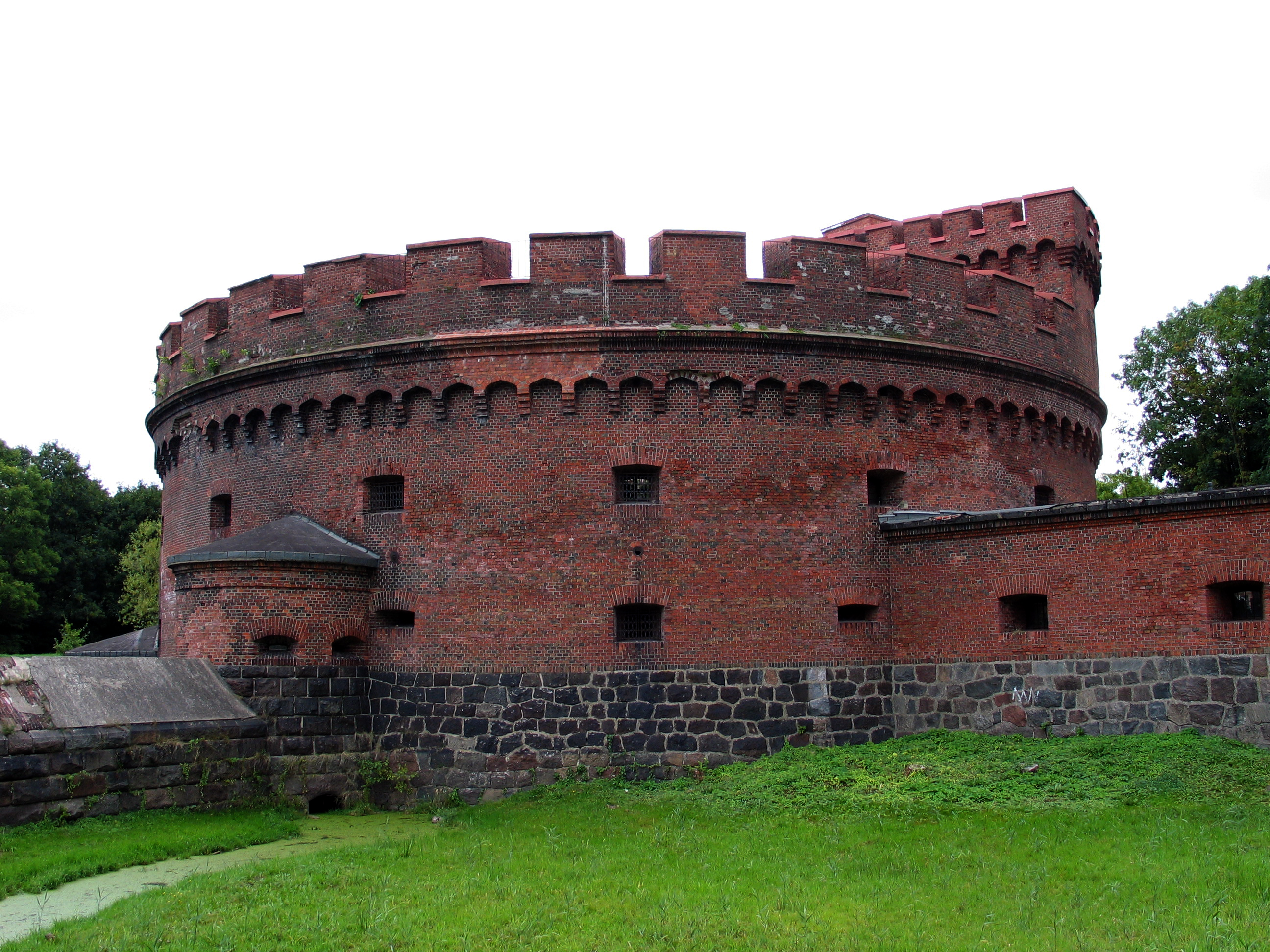 Dohna Tower in Kaliningrad.